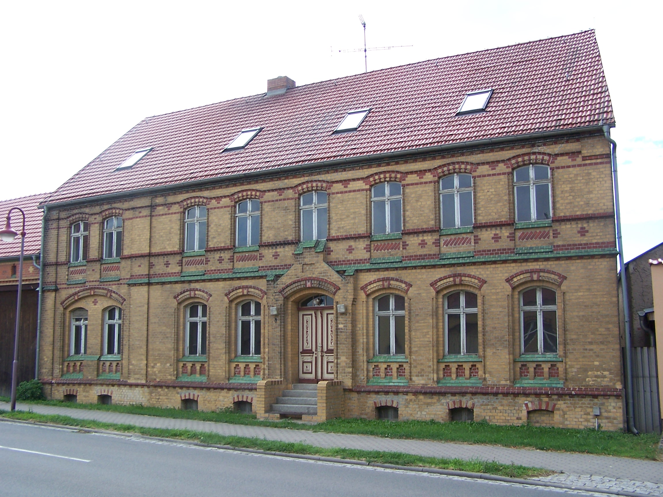 Werbig Dorfstrasse No.3